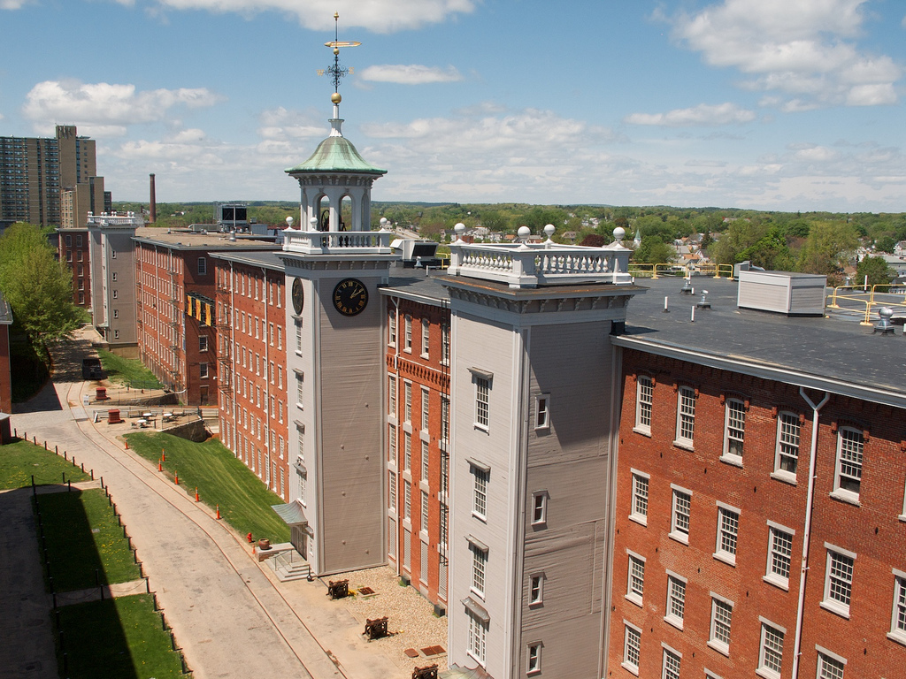 Roof line view of the towers in the central courtyard of Boott Mills, Lowell, Mass.